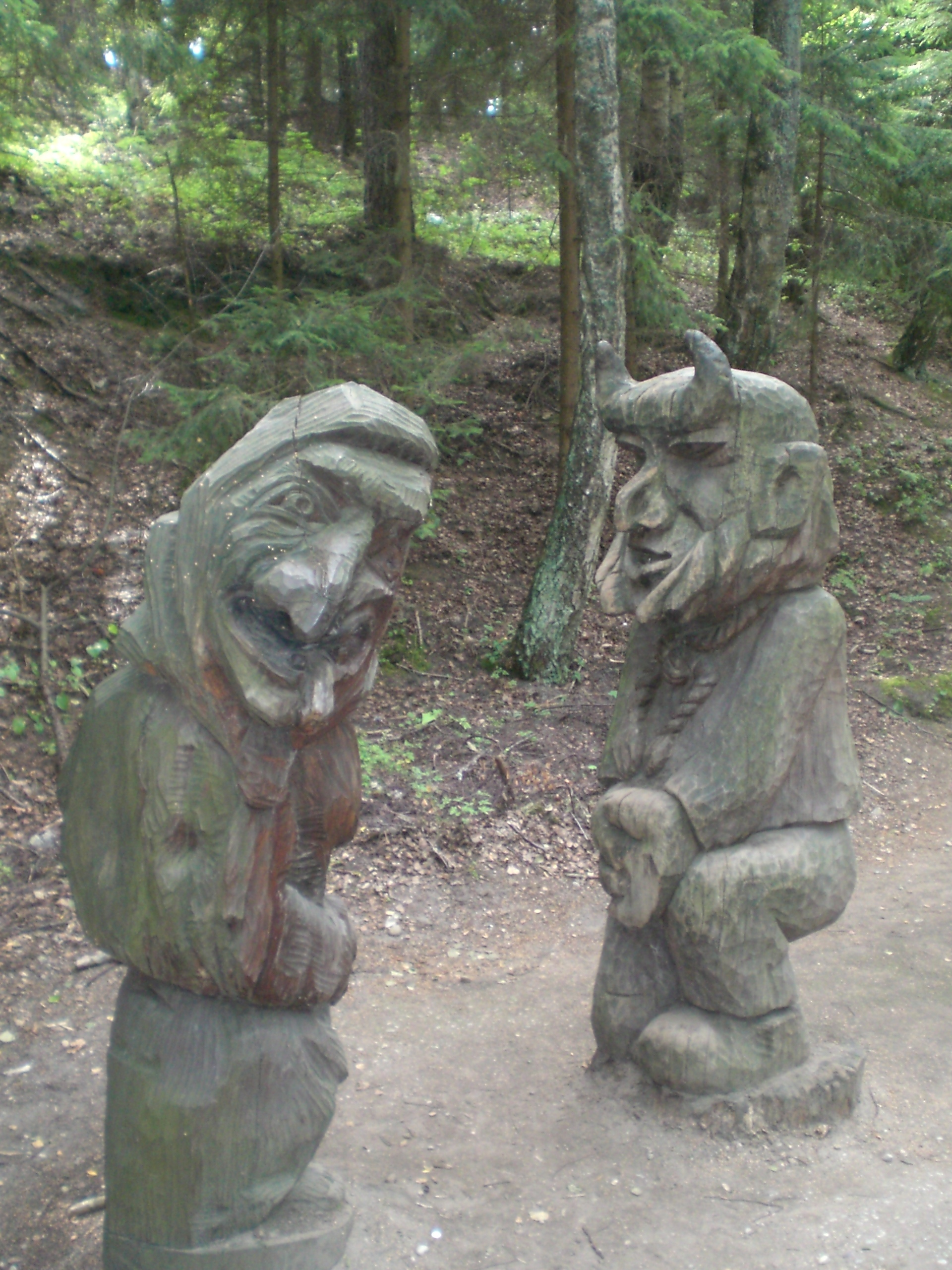 Devil and witch - a wooden sculpture at "Raganų Kalnas", the "Hill of Witches", in Juodkrantė, Lithuania